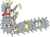 Chalchiuhtlicue, Goddess of Waters and Rivers